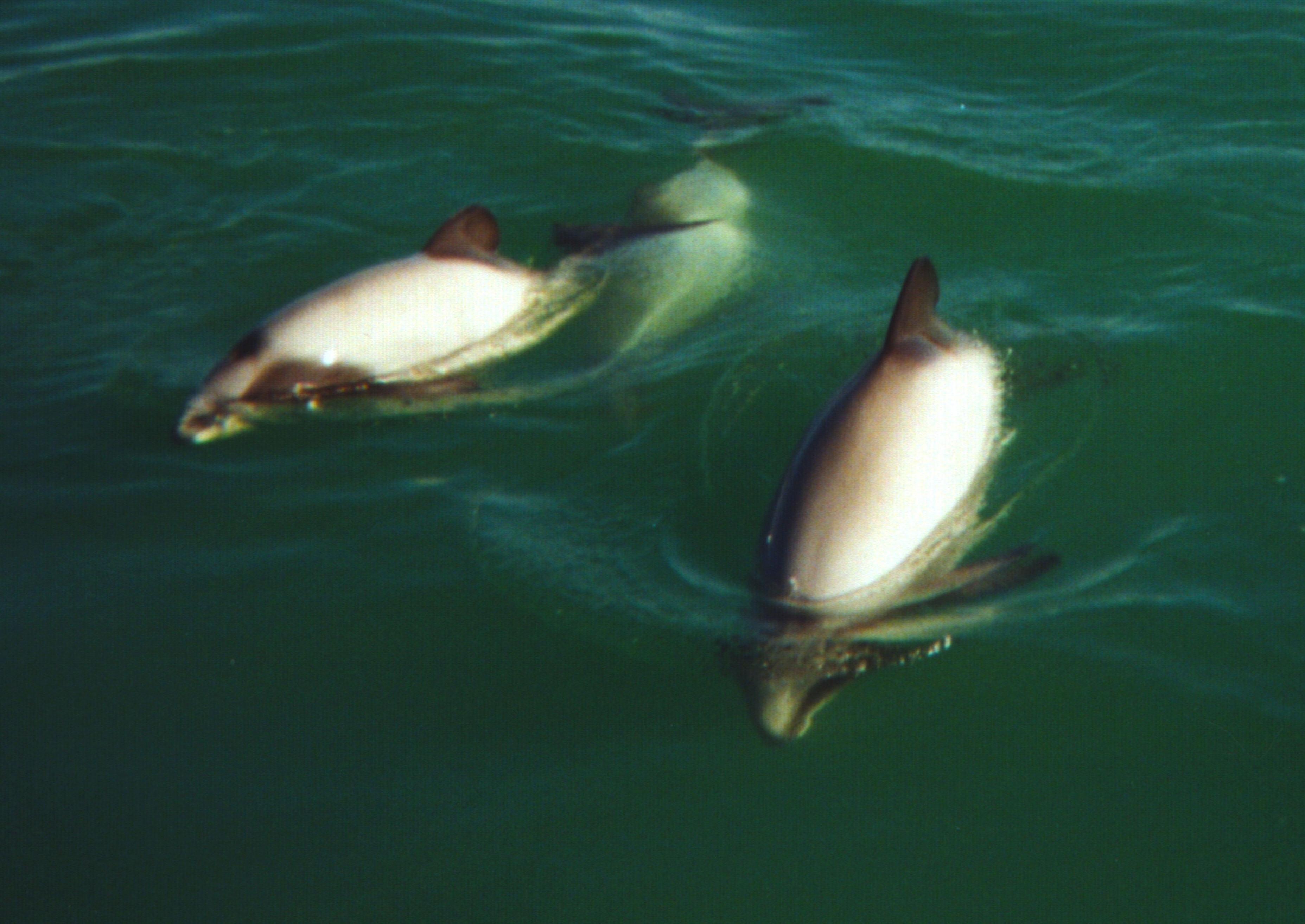 Hector's Dolphins at Porpoise Bay. This was scanned from a print, and the water appears darker than it should be.